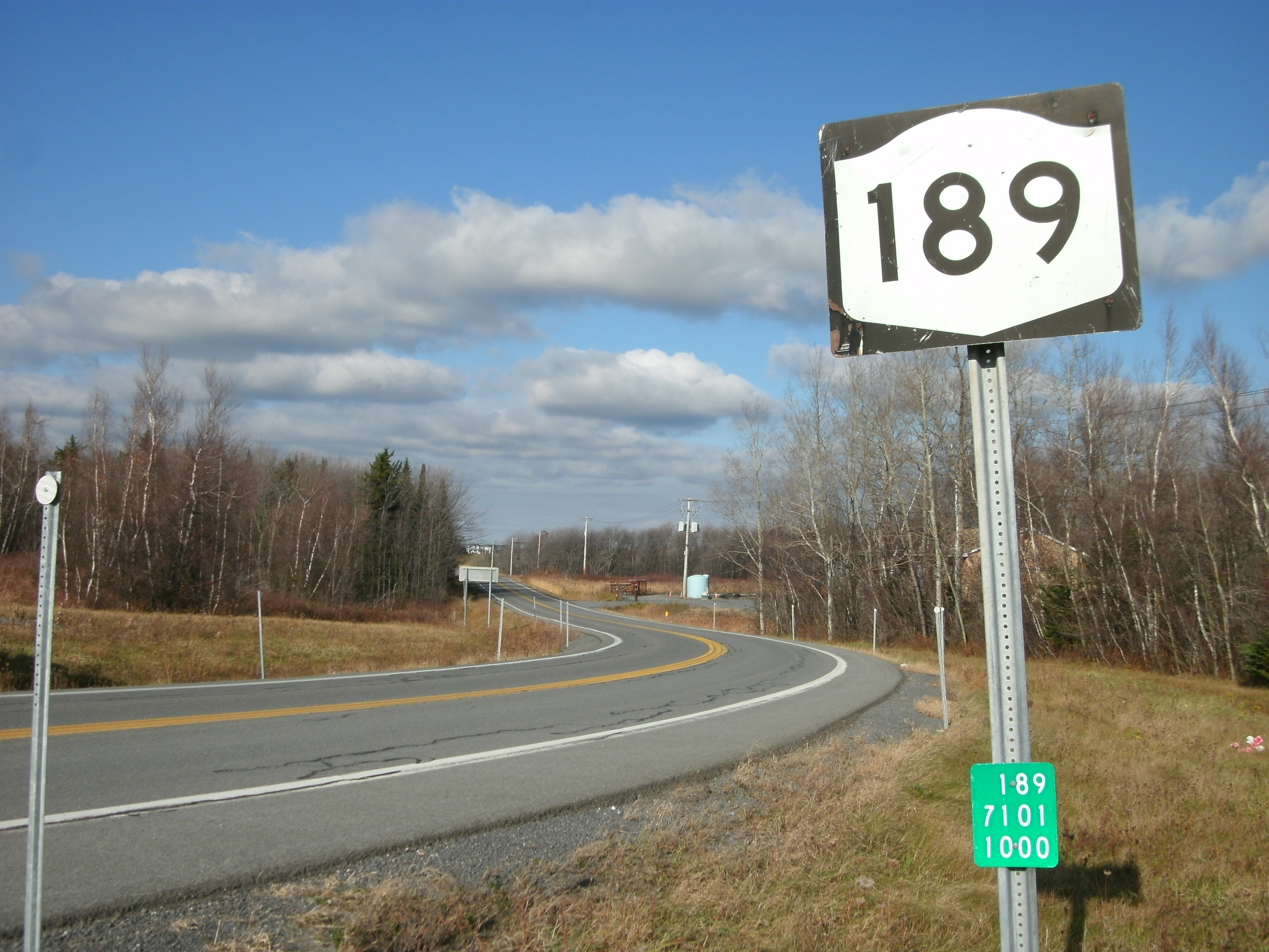 Heading northward away from U.S. Route 11 on New York State Route 189 in Clinton, New York.